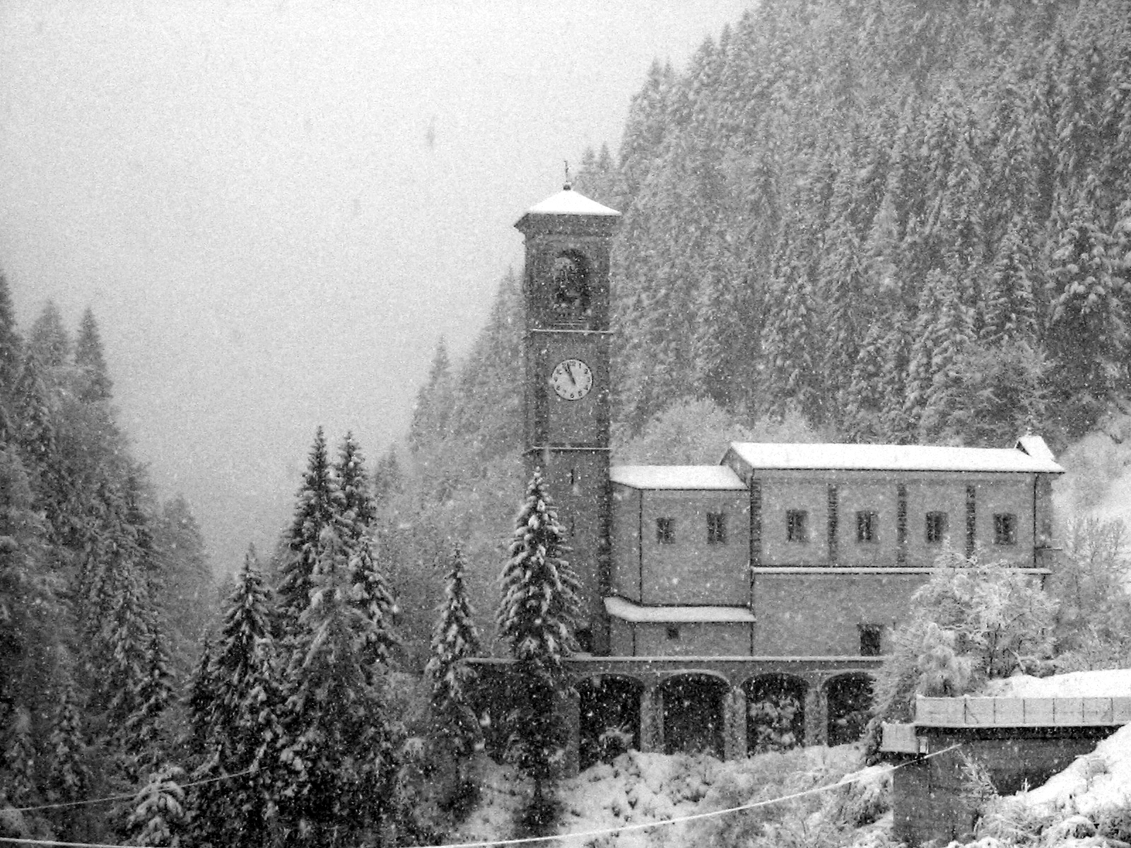 Valleve (BG), Lombardy, Italy